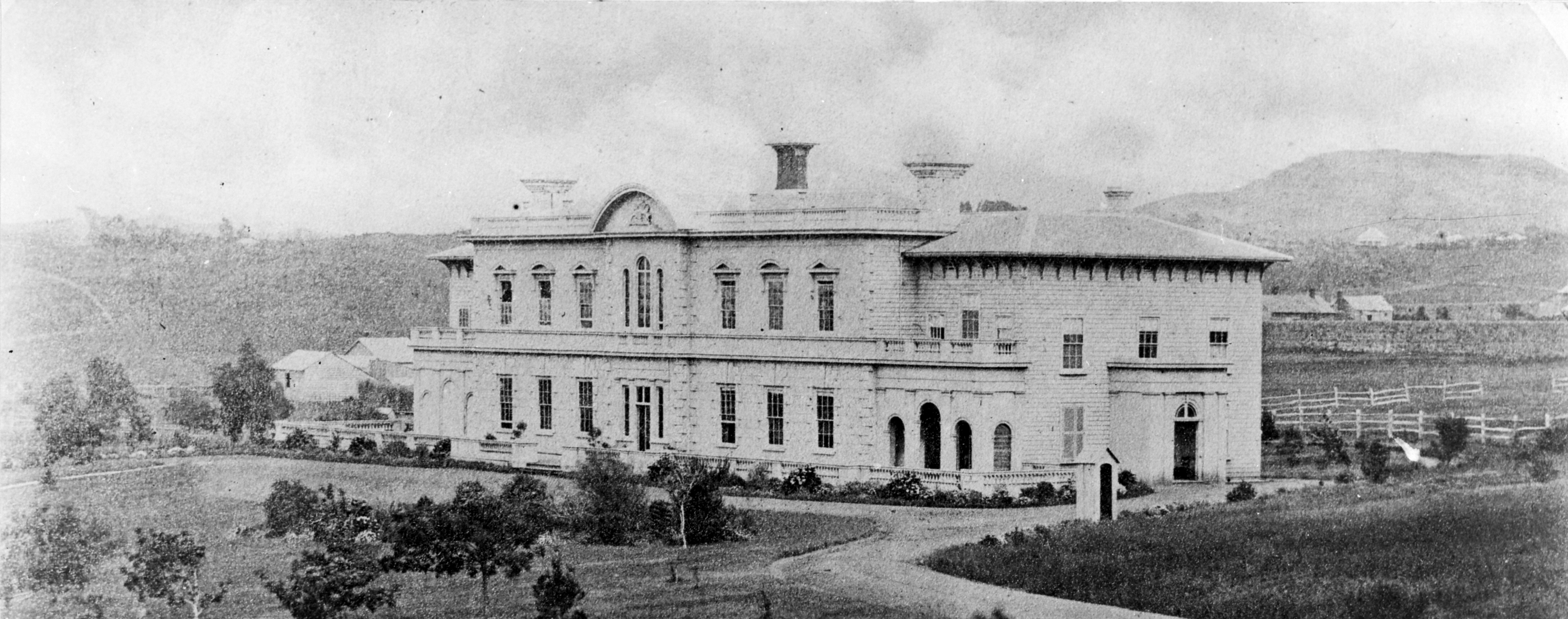 Auckland Government House in Auckland City, New Zealand. Auckland was the seat of New Zealand's national government from 1841 to 1865. This is the third Government House to exist in Auckland alone, later to become part of the University of Auckland campus. Extended information on origin webpage reads: Government House, Auckland [ca 1860s-1870s] / Reference number: 1/2-105456-F 1 b&w copy negative(s). Film negative. Horizontal image. / Part of Gilberd, Edward Browse, 1904-1991 :Photographs of Auckland PAColl-8549) Photographic Archive / Scope and contents: Government House, Auckland, taken ca 1860-1870s by an unidentified photographer.